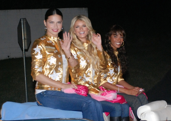 GUANTANAMO BAY, Cuba - Victoria's Secret Angels Adriana Lima (left), Marisa Miller and Selita Ebanks ride in the Guantanamo Bay Christmas Parade Dec. 1, 2007. As part of a USO tour, the Angels models visited Troopers stationed here during the holidays. (JTF Guantanamo photo by Navy Petty Officer 3rd Class William Weinert)